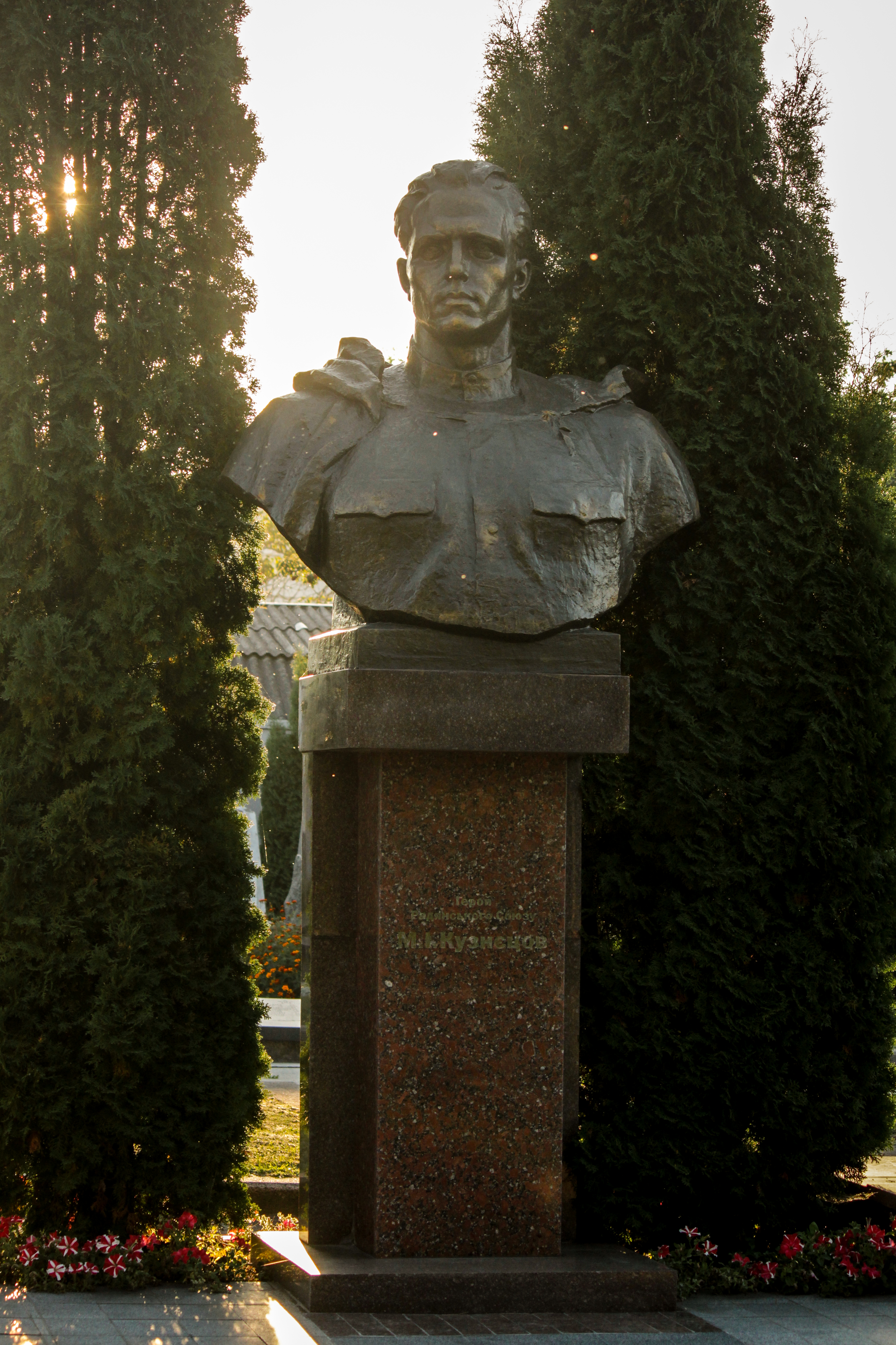 Monument of Hero of the Soviet Union M.I.Kuznetsov